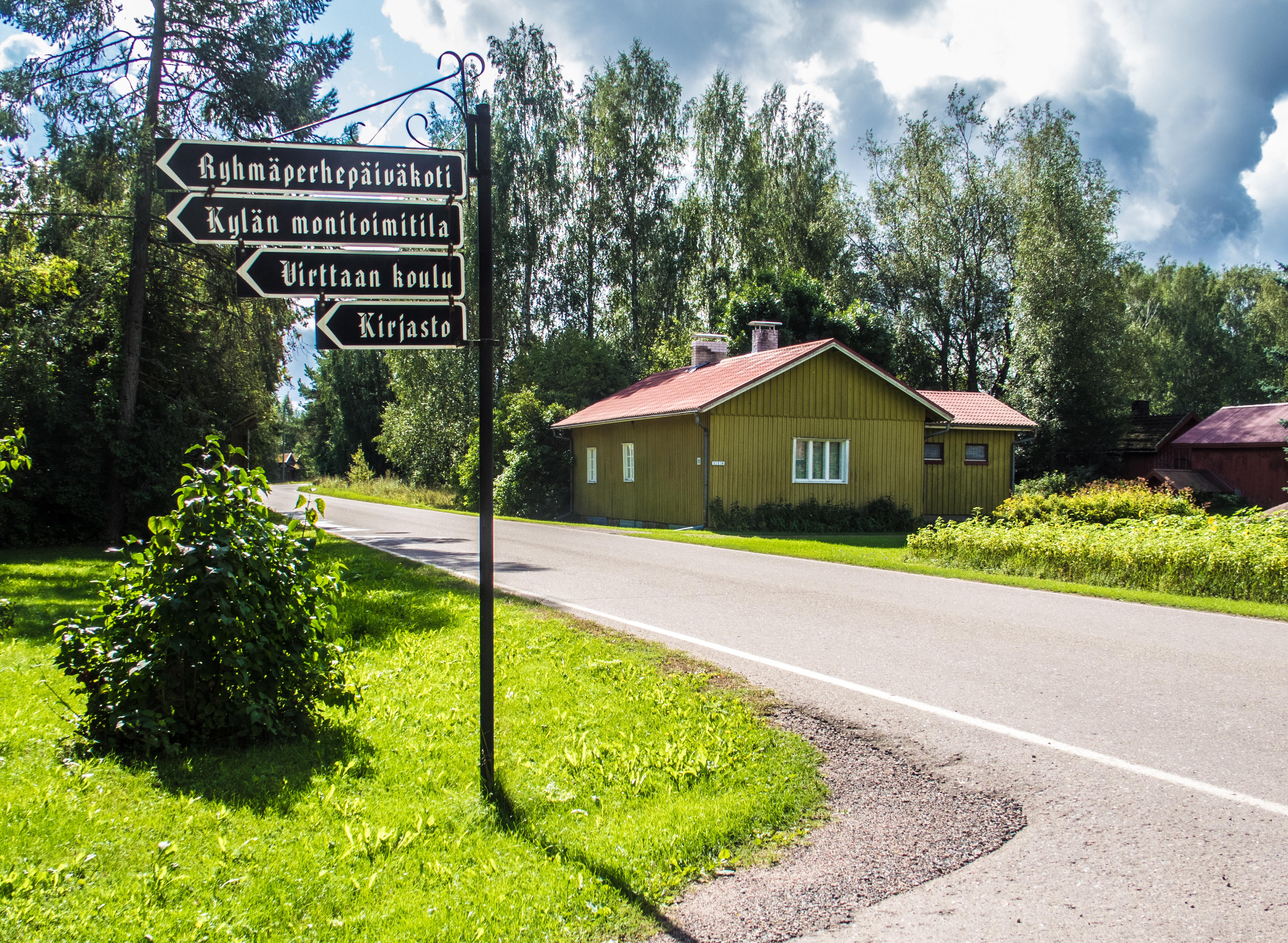 Virttaanraitti road (local road 12577) in Virttaa, Loimaa, Finland.